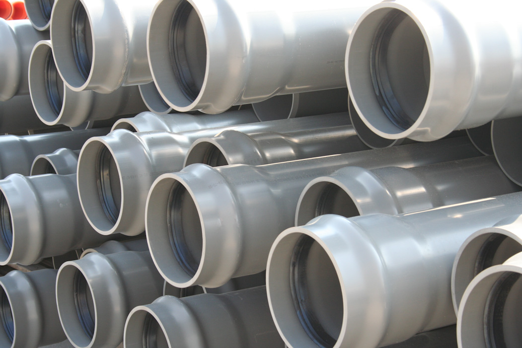 PVC Pressure Pipe